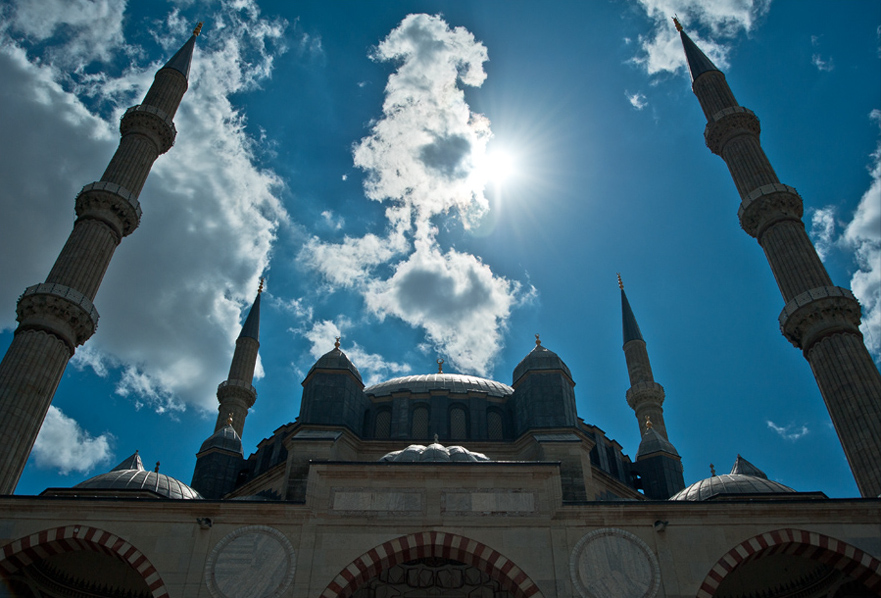 Selimiye Mosque - Edirne - Mimar Sinan